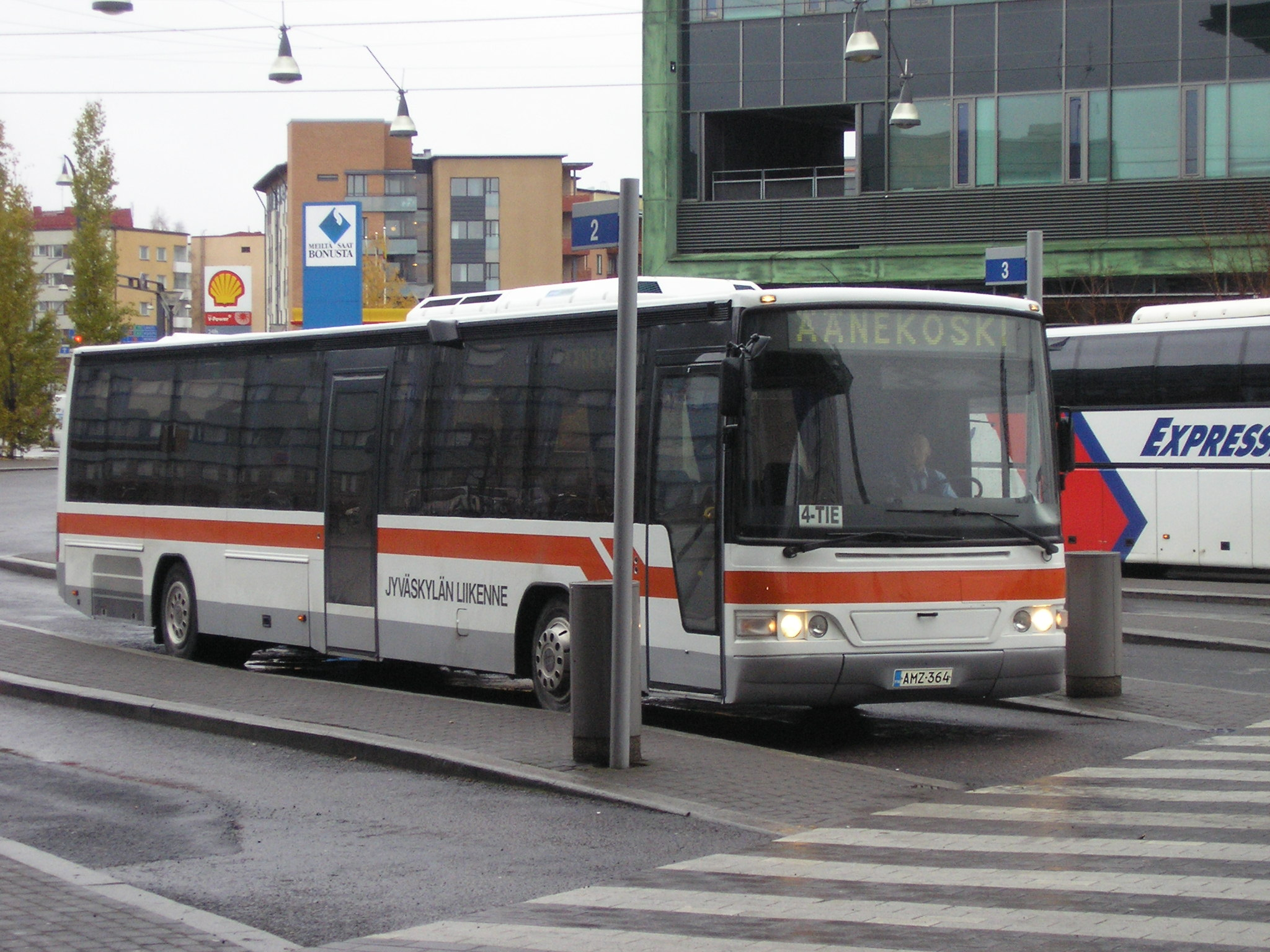 Jyväskylän Liikenne Volvo B10BLE/Carrus Vega L (447, AMZ-364, 2000) at Jyväskylä bus station.